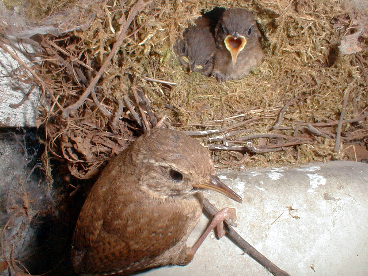 Troglodytes troglodytes, adult with hatchlings, picture taken on July 18th, 2001 in Bensheim (Germany) with flash light